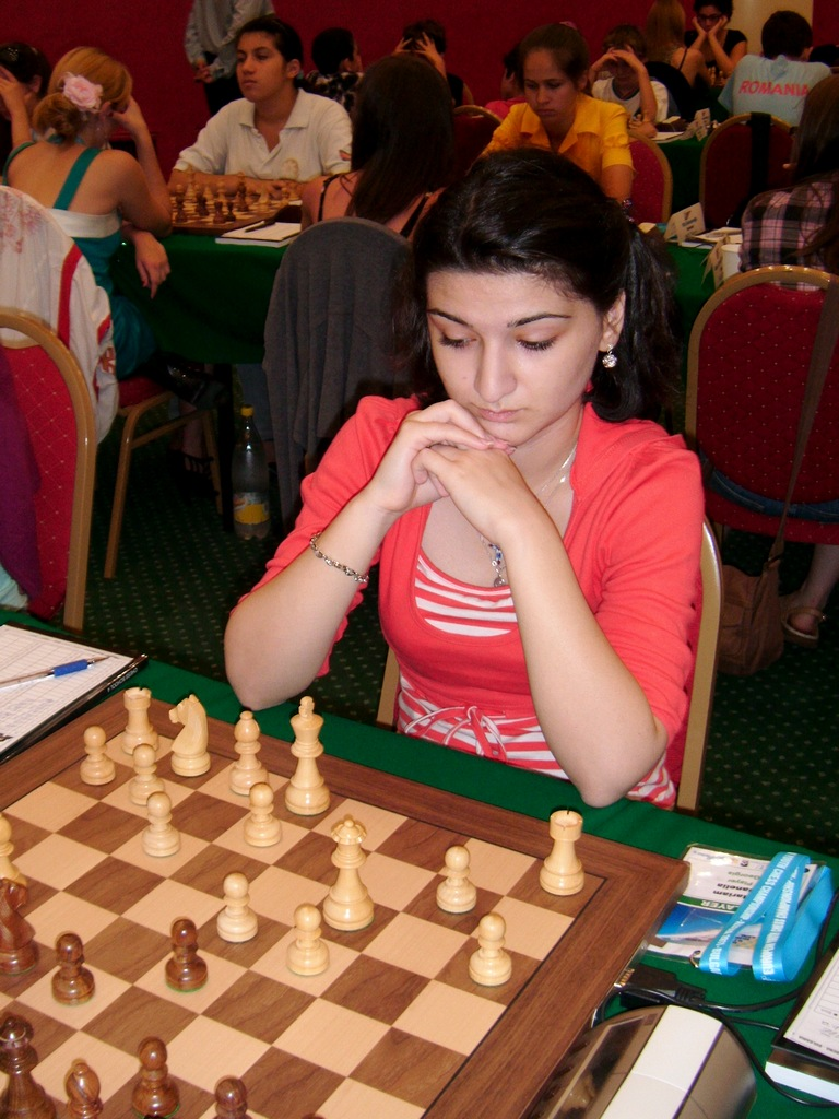 Mariam Danelia playing in the European Youth Chess Championship in Albena (Bulgaria)